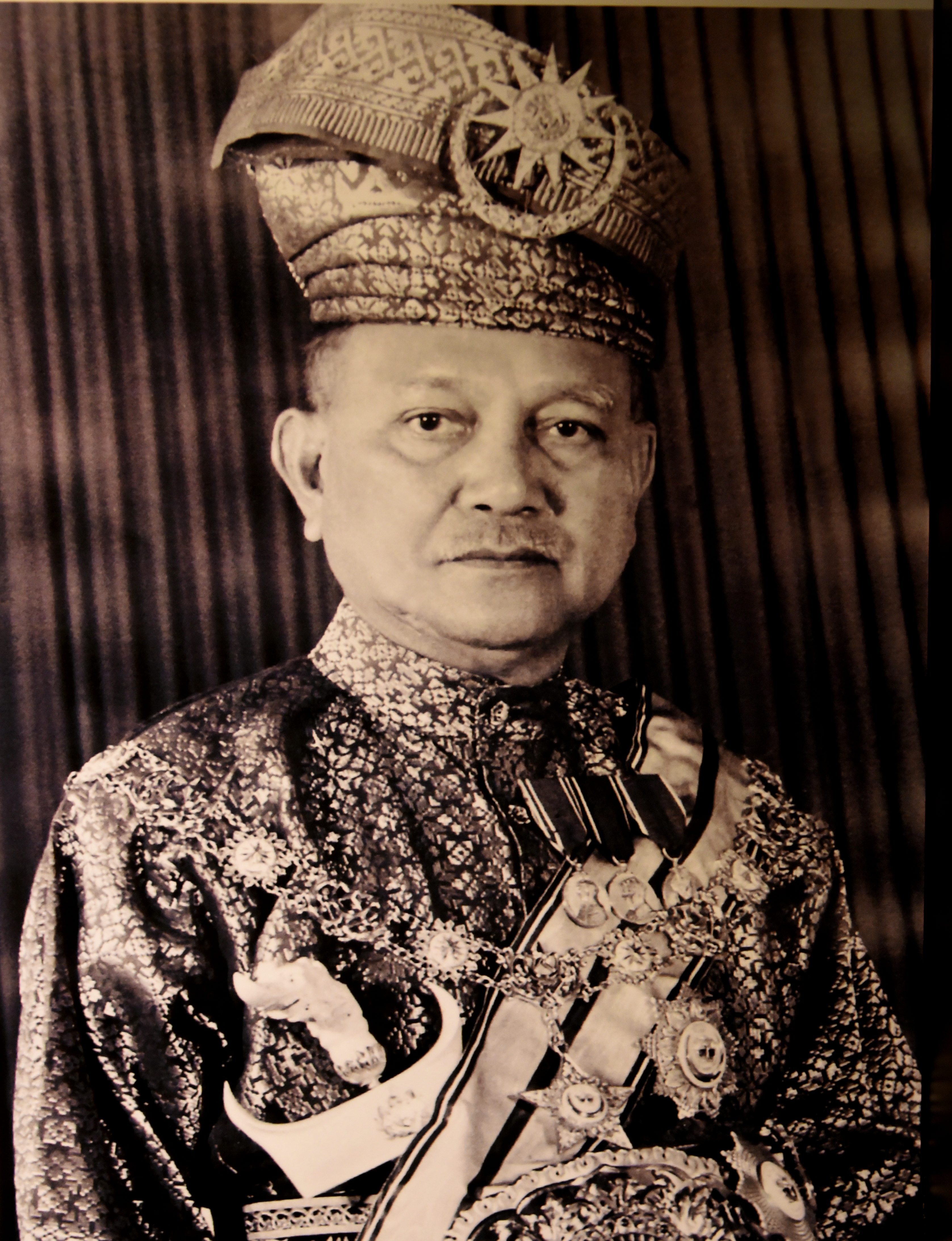 HRH Tuanku Abdul Rahman Ibni Al-Marhum Tuanku Muhammad (1895 - 1960). The name of the photographer was not mentioned. The original image is © the Tuanku Ja'afar Royal Gallery, Seremban, Negeri Sembilan, Malaysia.